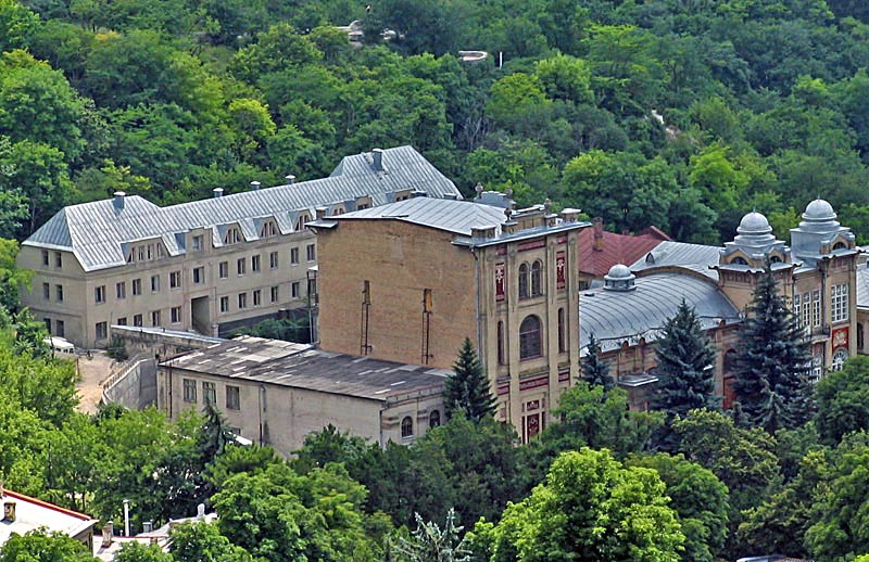 View on Pyatigorsk Operetta Theater from the Mashuk mountain.